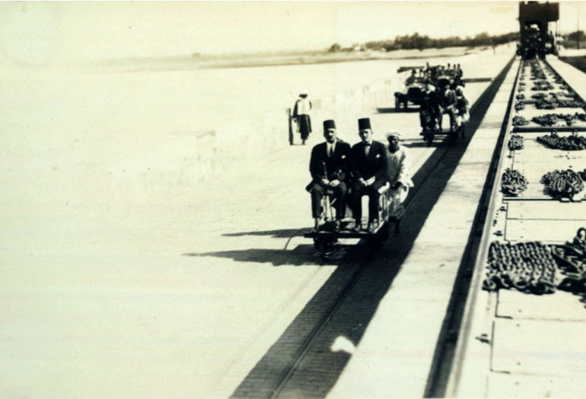 Adly Yakn Pasha inspecting the tank ISNA.